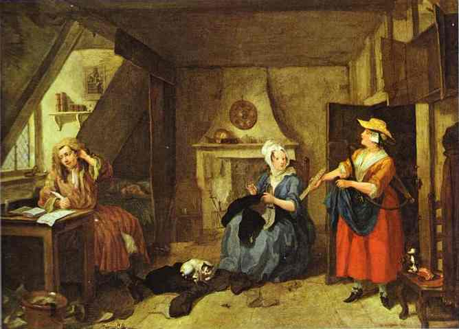 The Distressed Poet